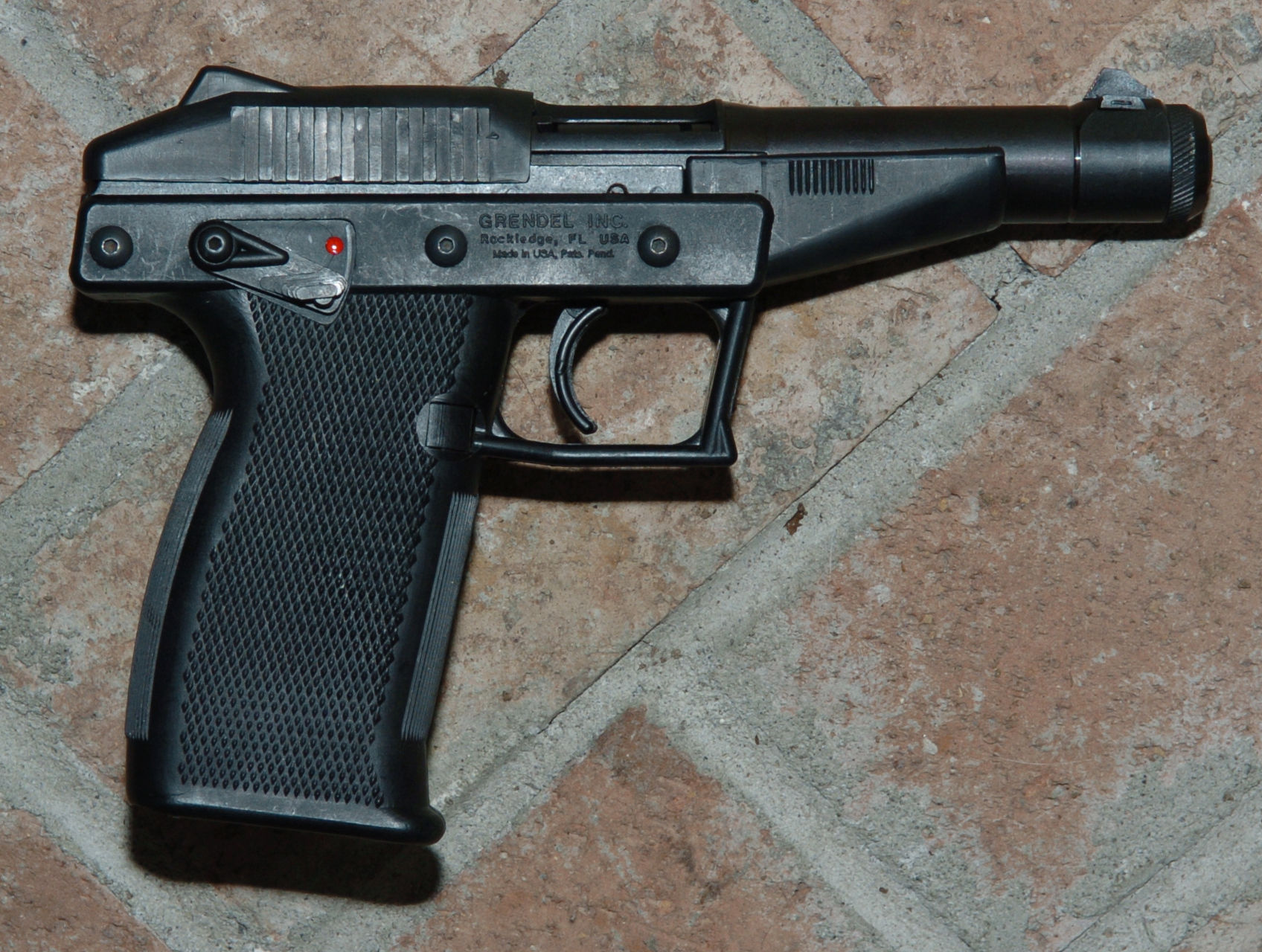 Photo of right side of Grendel P30 pistol